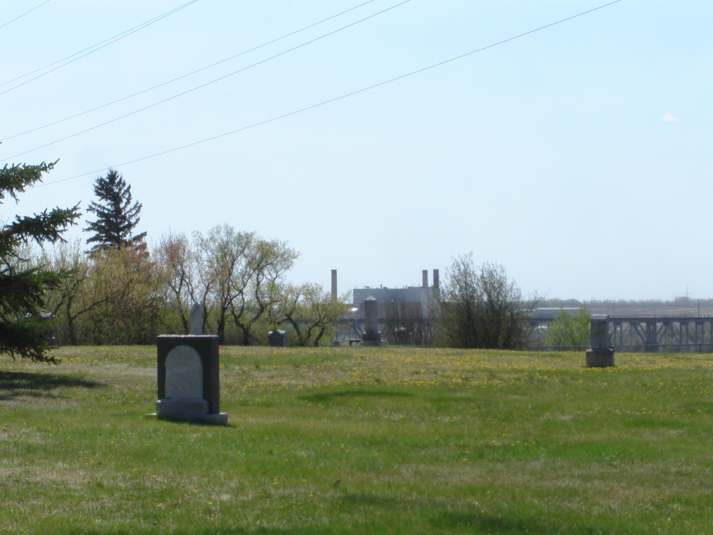 Pioneer Cemetery Diefenbaker Management Area southwest of Exhibition, Saskatoon subdivision Saskatoon, Saskatchewan, Canada